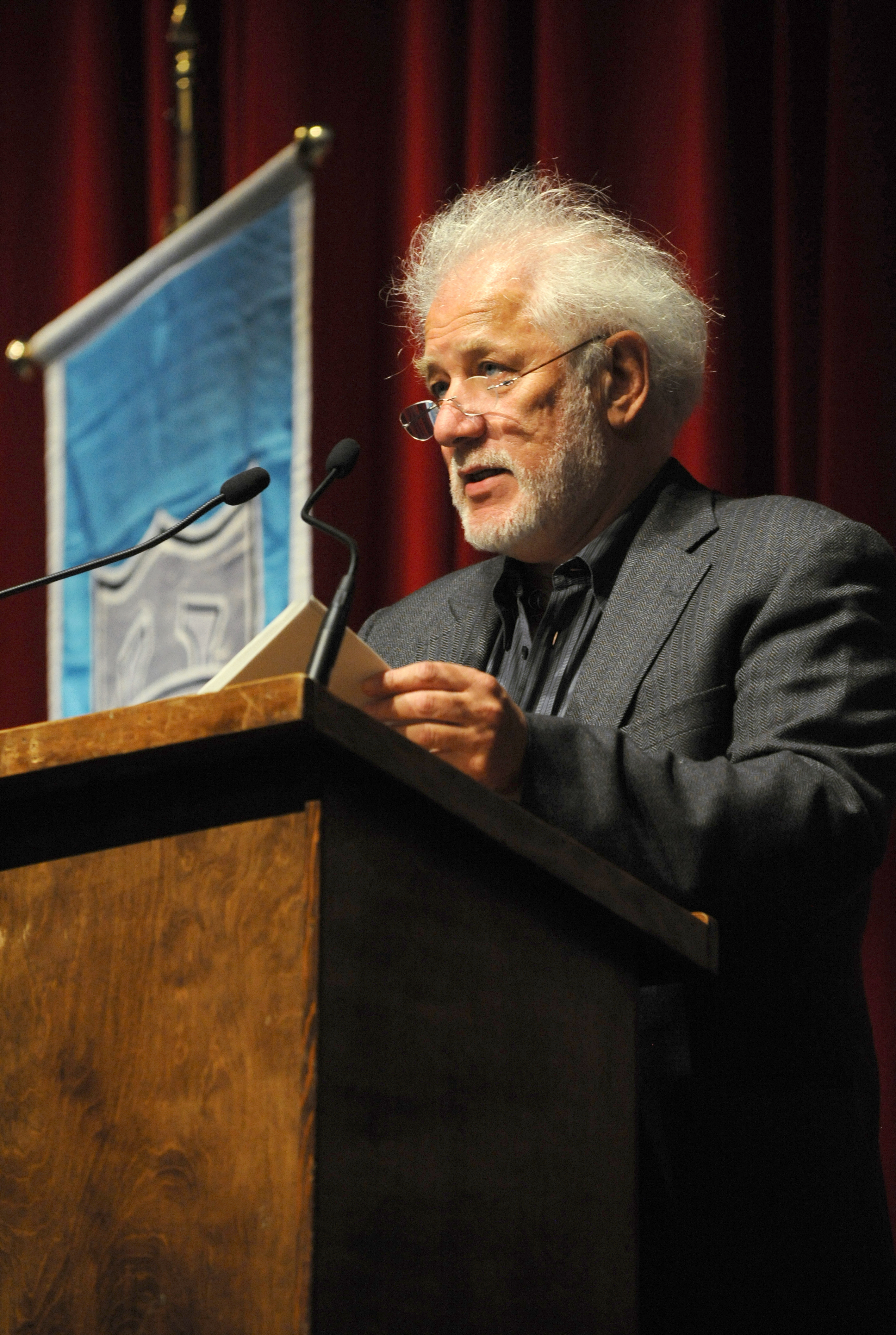 Michael Ondaatje, author of "The English Patient" speaks for the Tulane Great Writer Series presented by the Creative Writing Fund of the Department of English. Dixon Hall; October 25, 2010